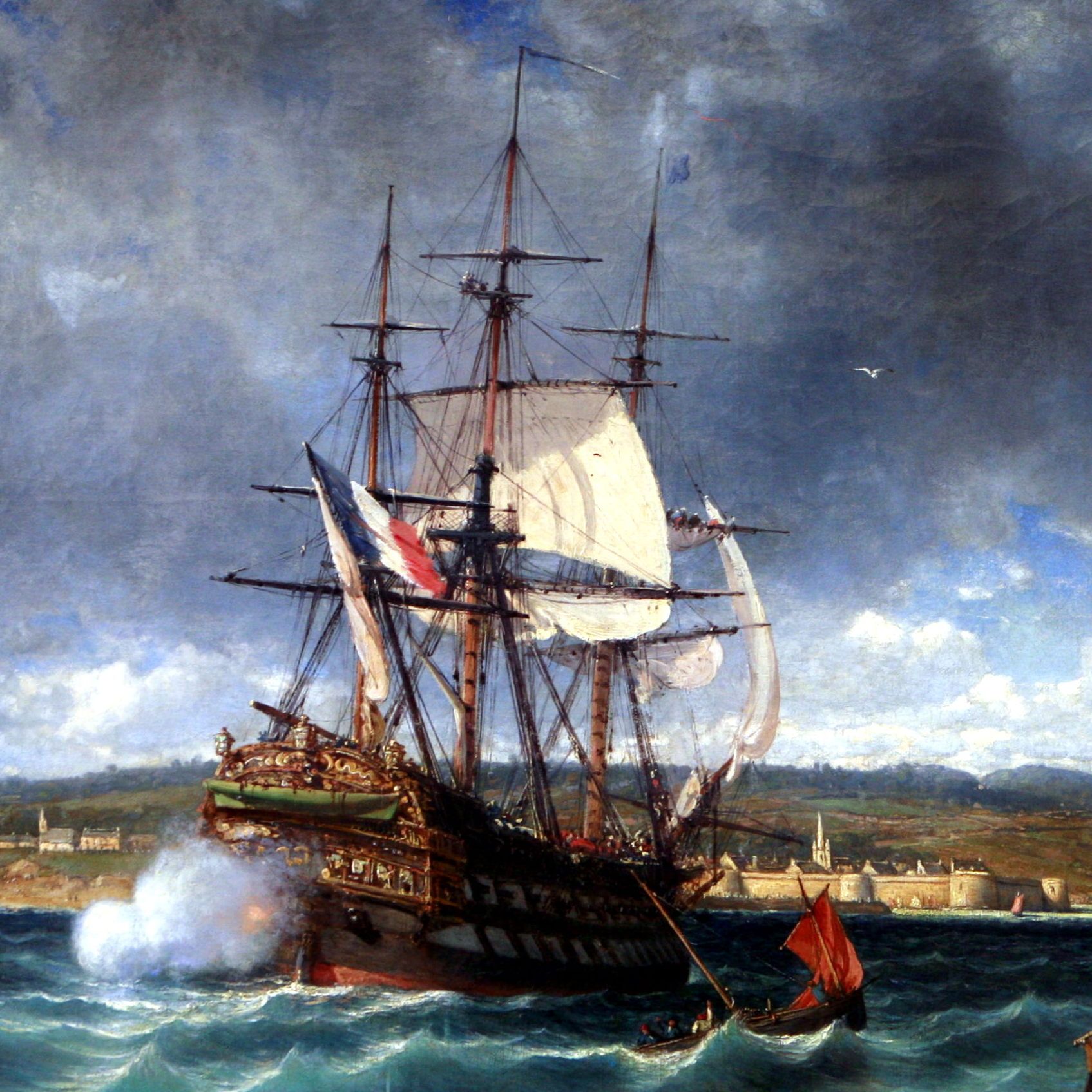 The Vétéran fleeing into the shallow waters of ConcarneauOil on canvas, c. 1861, 82 x 117 cmOn display at Brest Fine arts museum